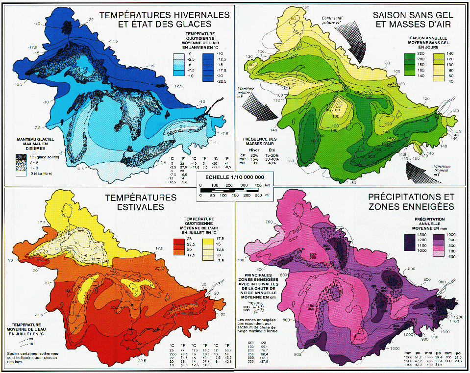 Winter temperatures, ice coverage, précipitations, summer températures and snow belt of the North American Great Lakes